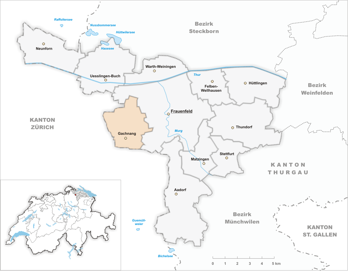 Municipality Gachnang